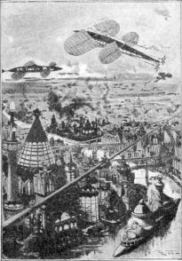 a Science fiction city (Paris in a future.)